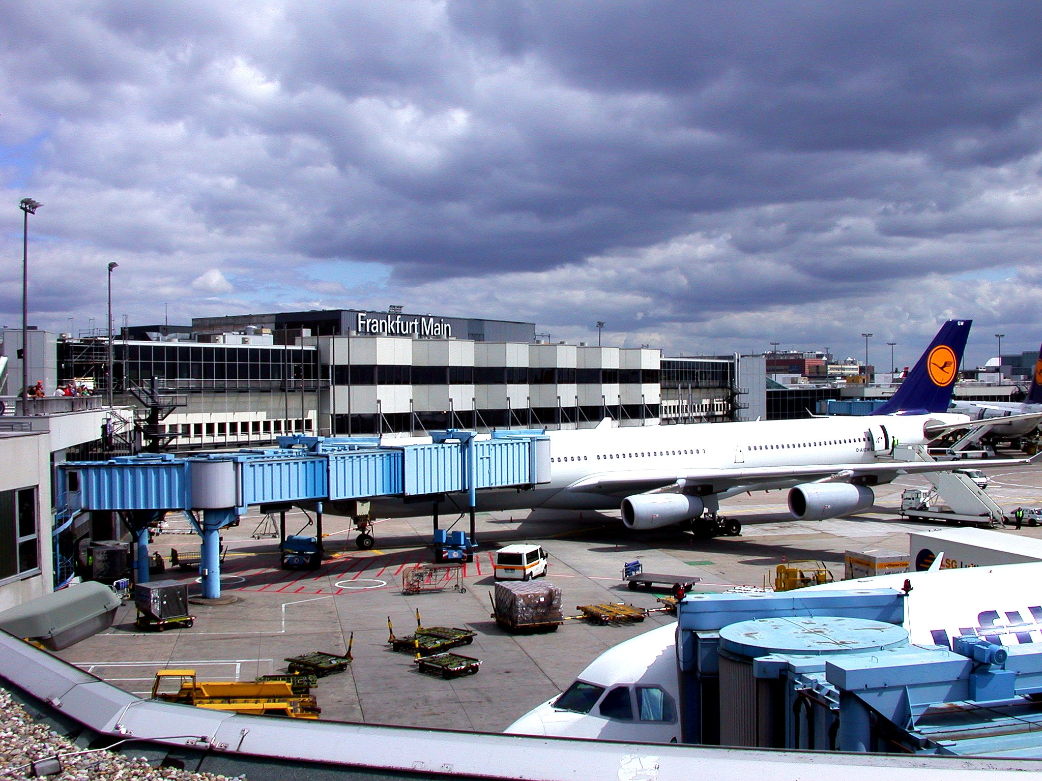 Lufthansa Airbus A340-313 aircraft (D-AIGW) at Frankfurt Airport Terminal 1